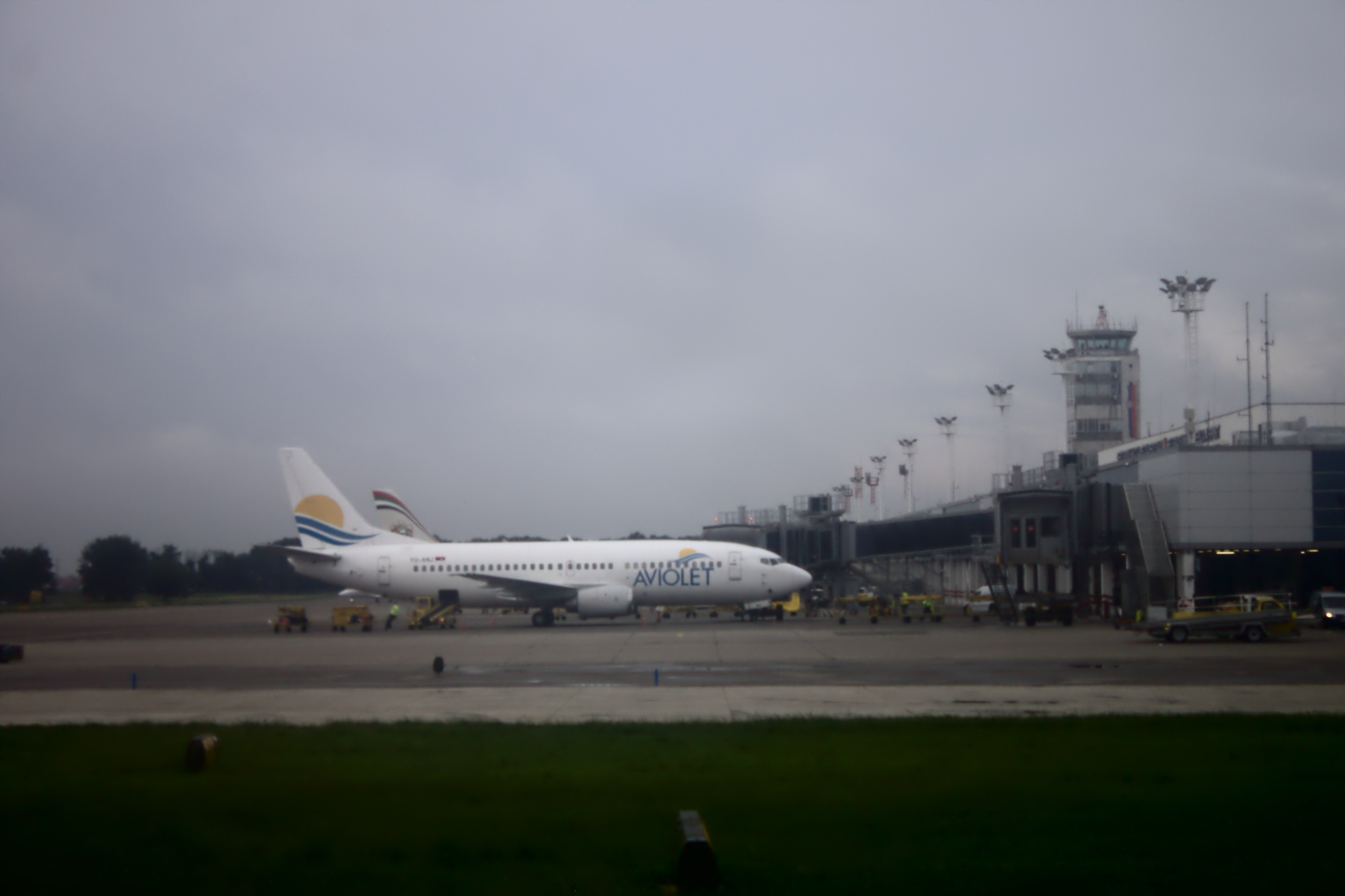 AvioLet plane at Nikola Tesla Airport in Belgrade, Serbia